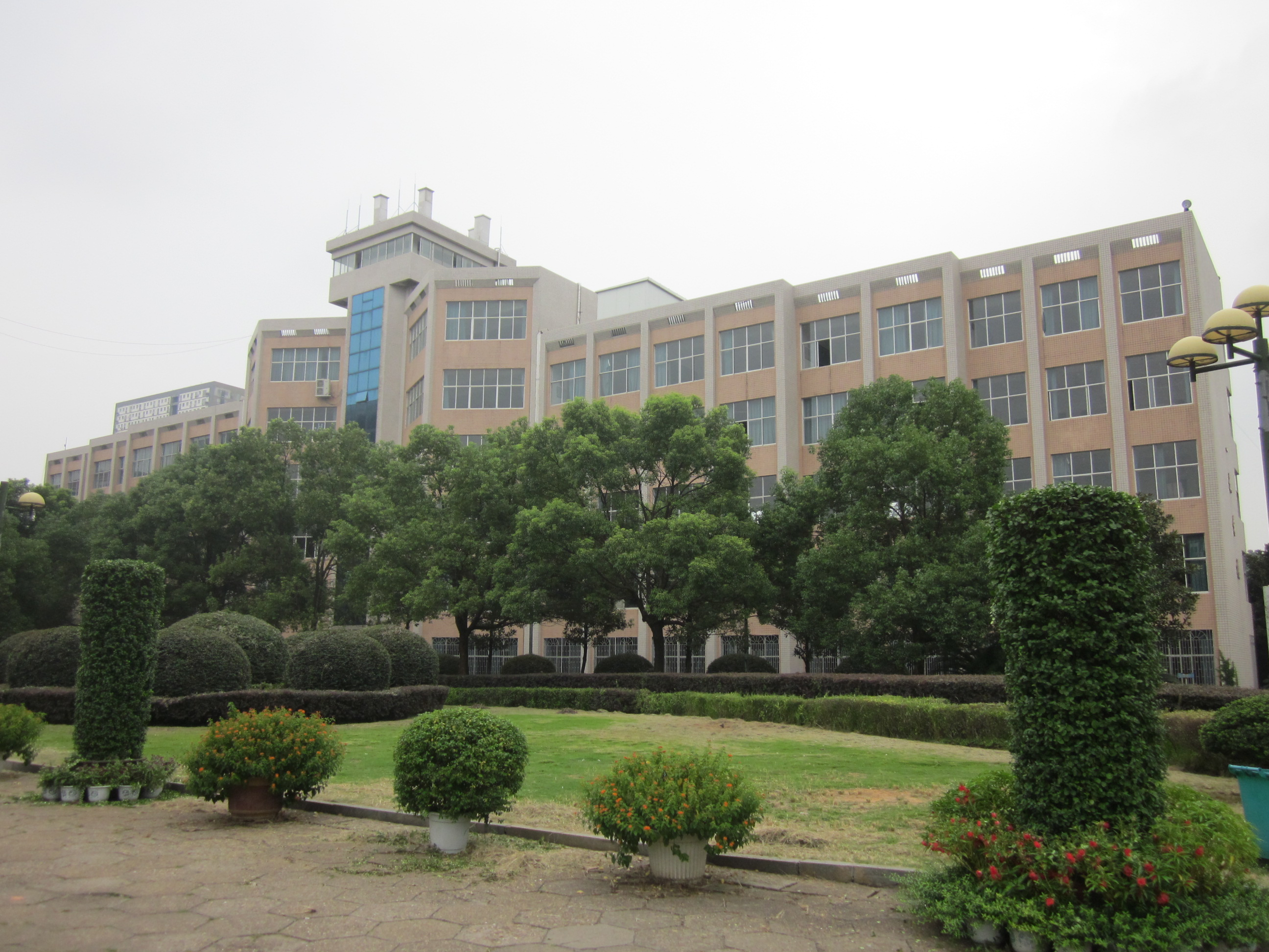 Hunan University of Commerce，or HUC (Chinese: 湖南商学院; pinyin: Húnán Shāng Xuéyuàn)，is a government-sponsored full-time college,and one of the universities and colleges specially supported by the overall economic and social development program of Hunan province. Located in the Lushan University Park of Changsha.